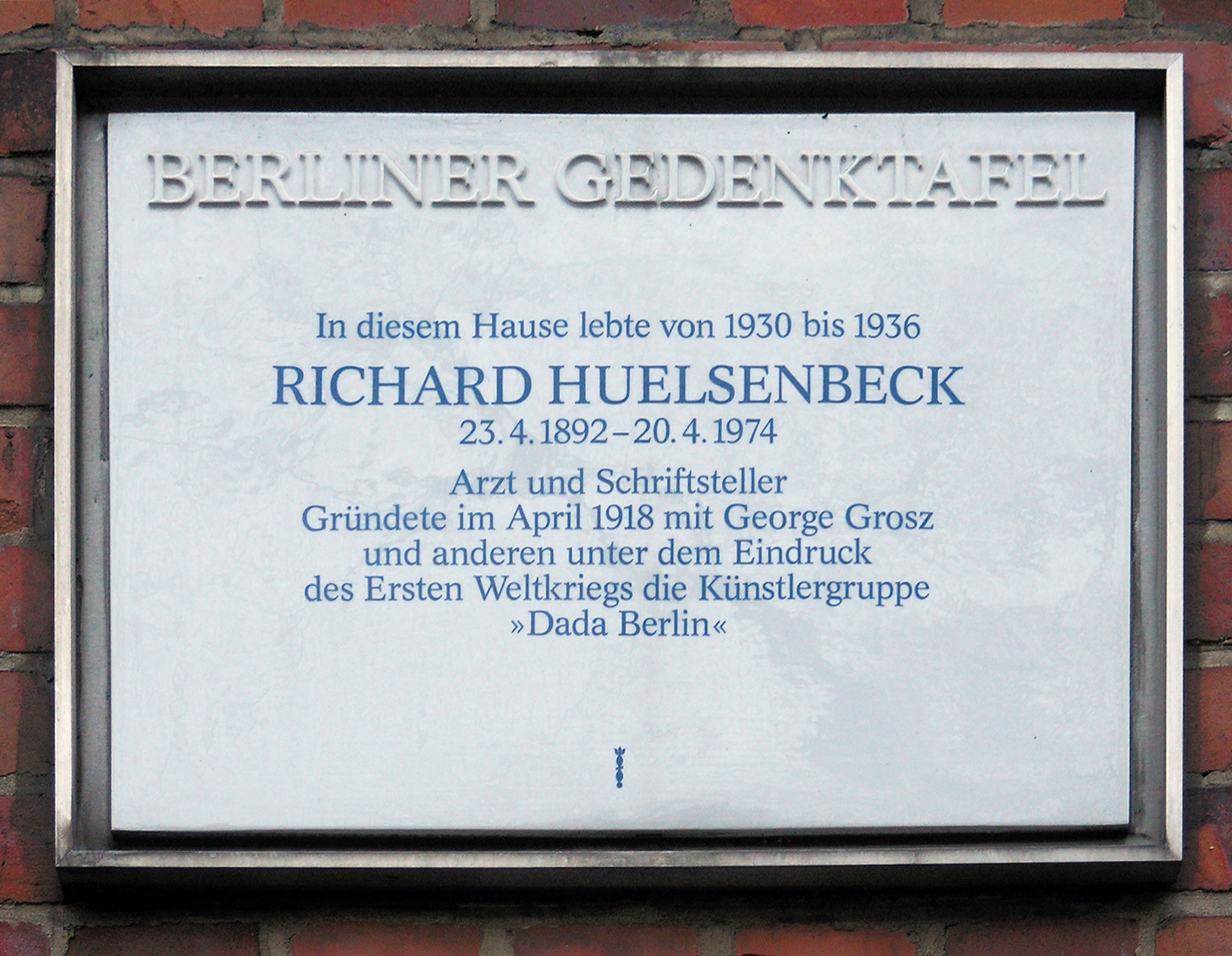 Berlin memorial plaque, Richard Huelsenbeck, Lessingstraße 12, Berlin-Steglitz, Germany